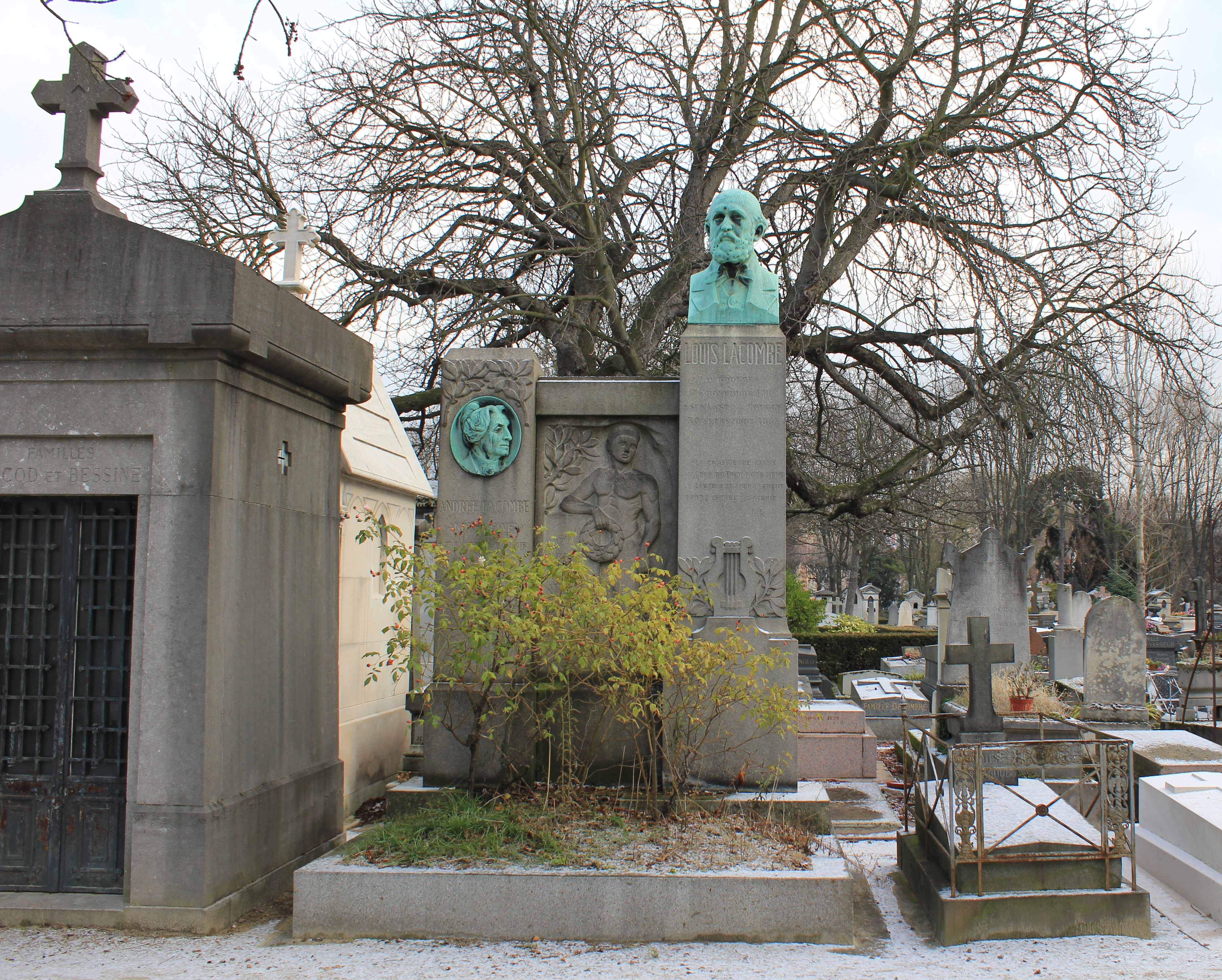 Louis Lacombe's tombstone in Père Lachaise Cemetery, in Paris.